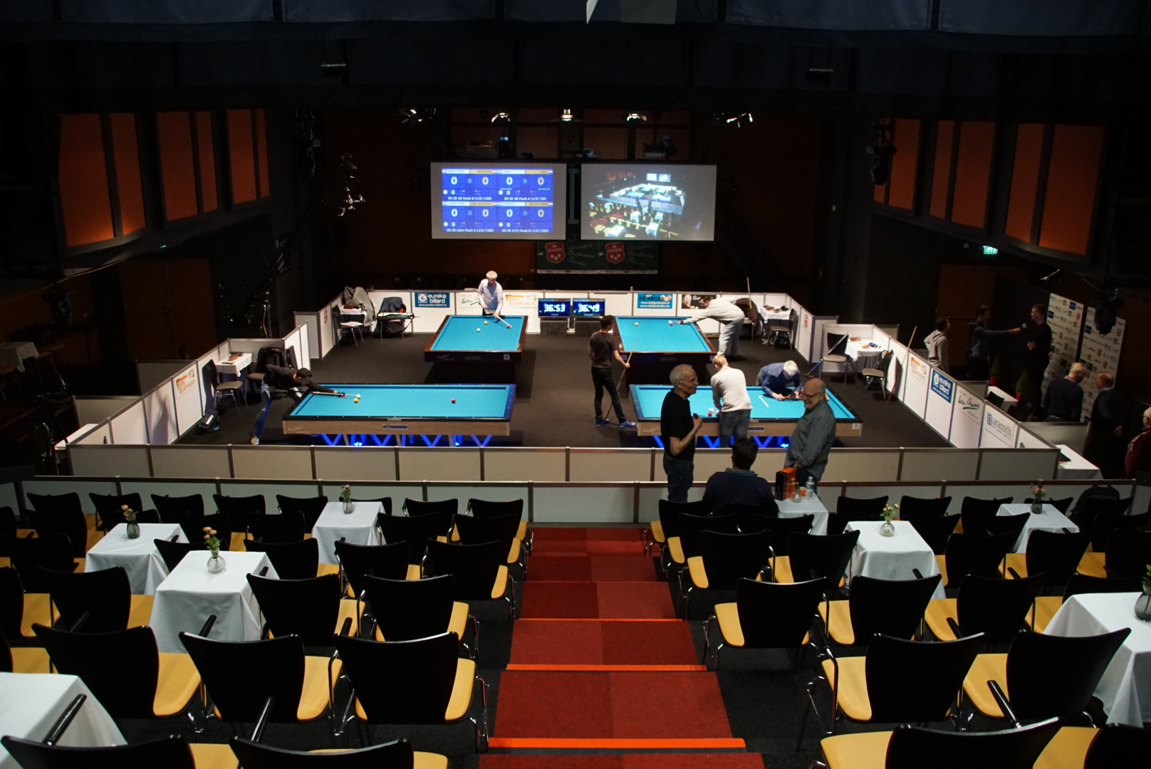 De speelzaal NK Biljartvijfkamp 2018 Berlicum